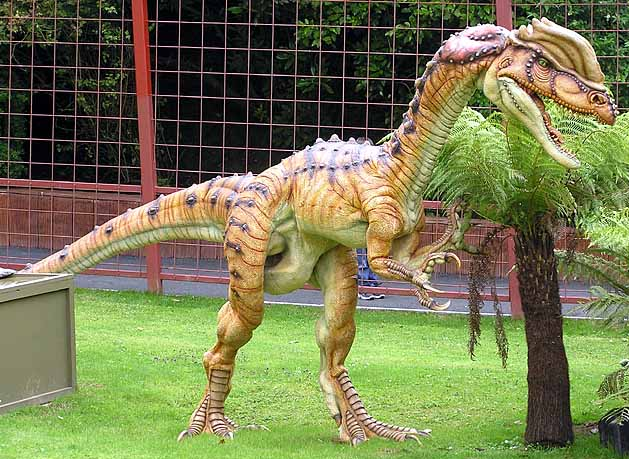 Dilophosaurus animatronic model at Combe Martin Wildlife and Dinosaur Park, North Devon, England. This model is full size. Taken by Adrian Pingstone in July 2004 and released to the public domain.